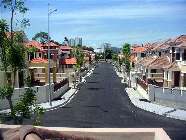 View of Minden Heights, a neighbourhood on Penang Island